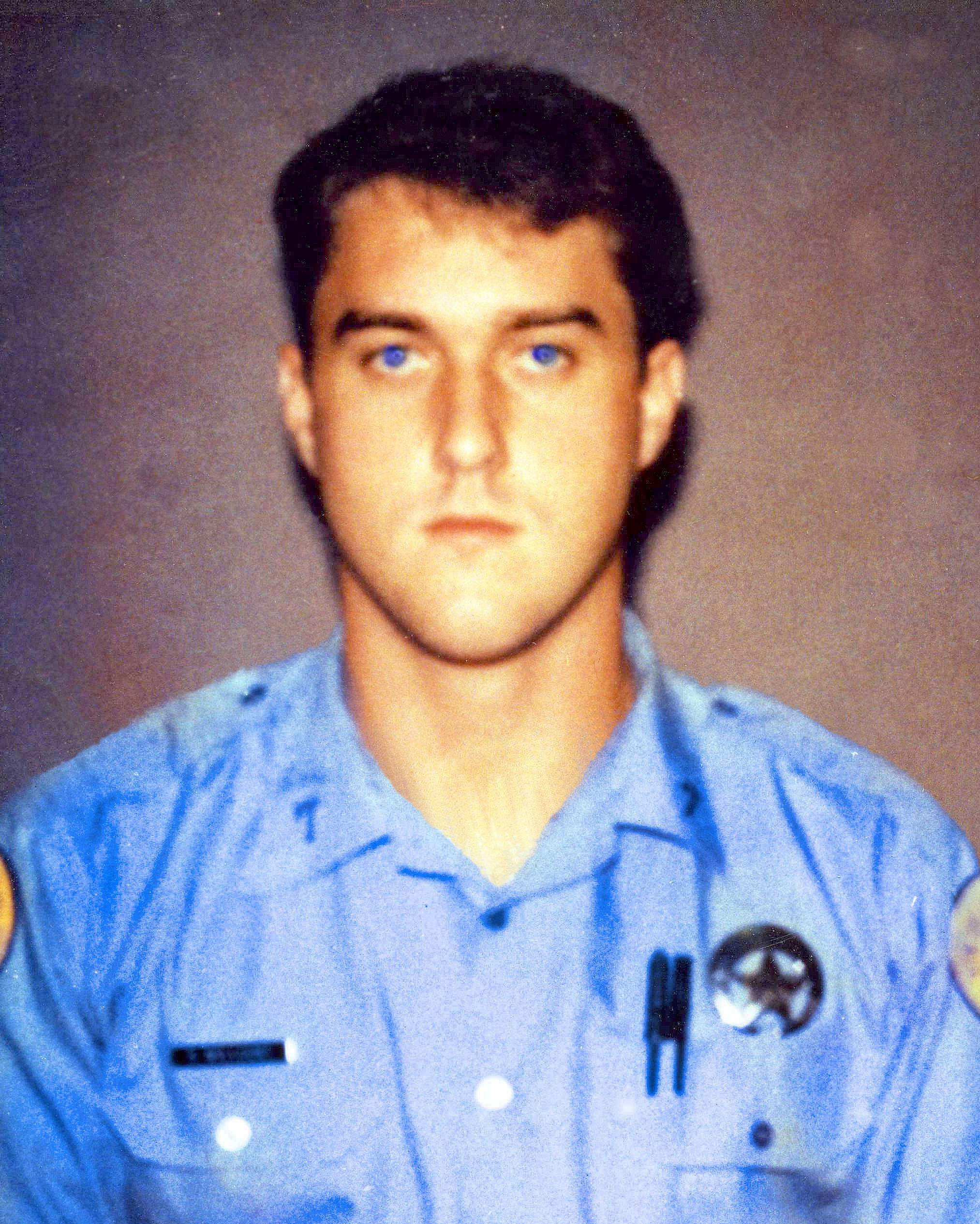 Officer Ronald A. Williams II